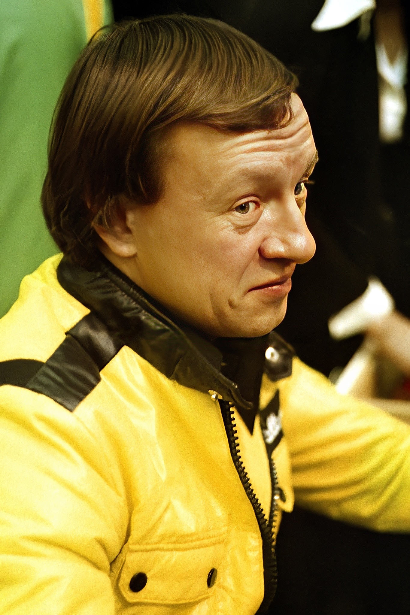 Finnish rally driver Rauno Aaltonen pictured in the late 1970s at the "Essen Motorshow" in Germany.